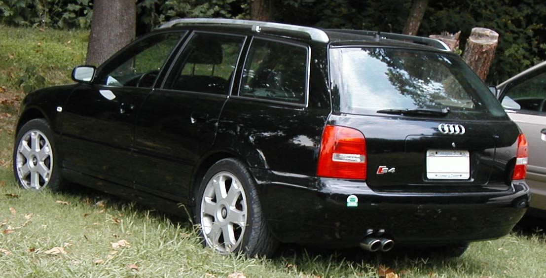 1999-2002 Audi S4 Avant photographed in USA.